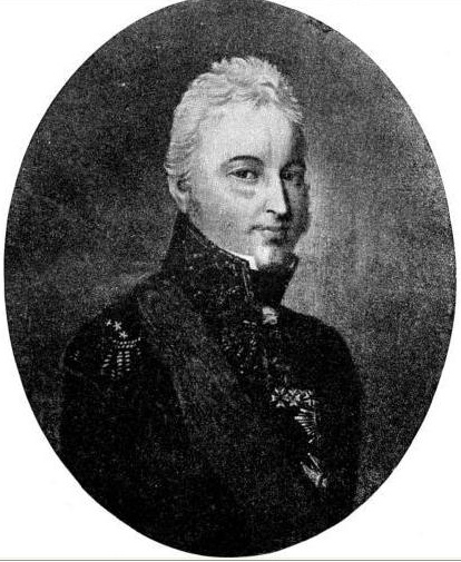 General count Étienne Marie Antoine Champion de Nansouty.